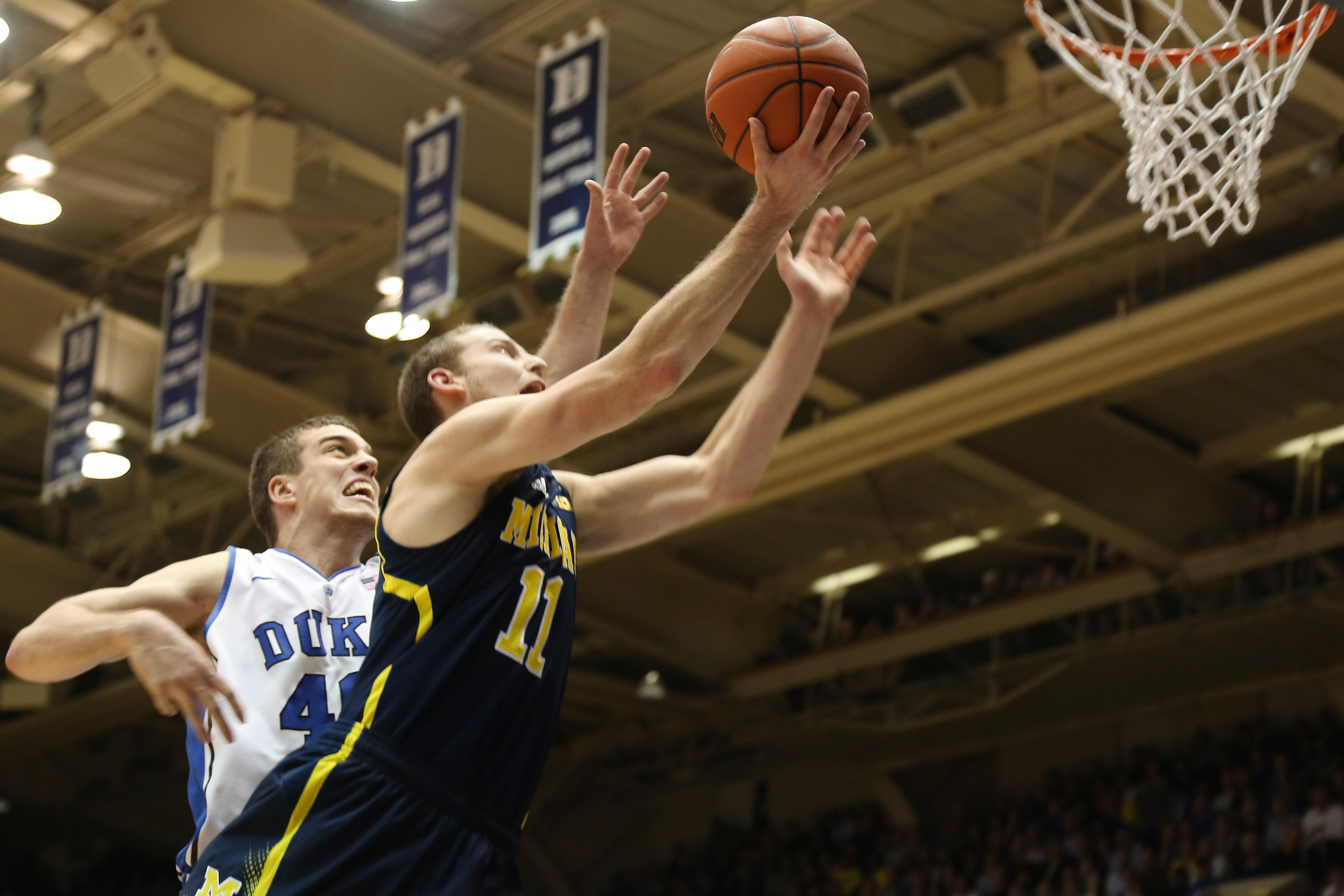 Nik Stauskas shoots against Marshall Plumlee in the Duke–Michigan basketball rivalry